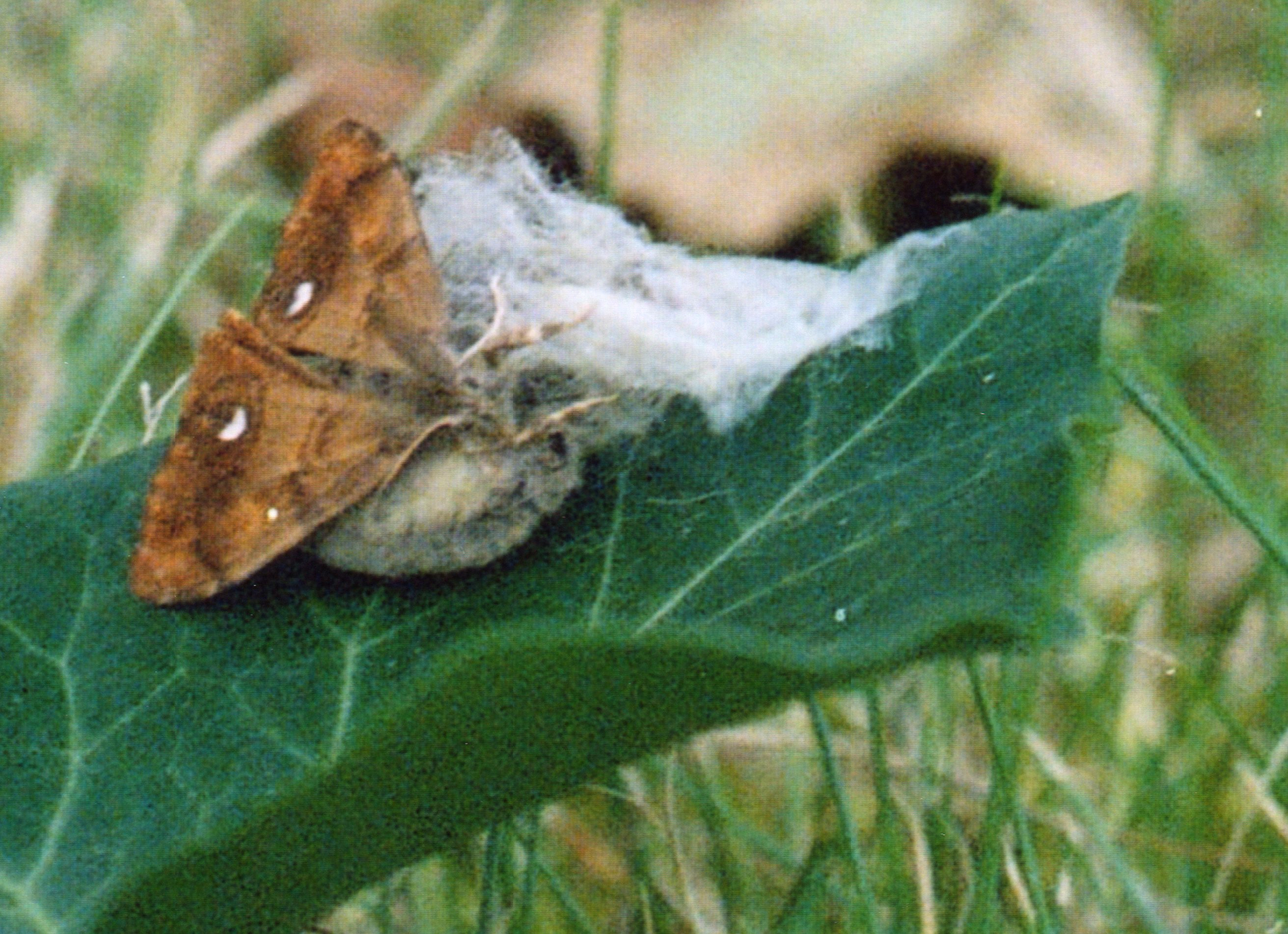 Orgyia antiqua mating on ivy (not food plant)